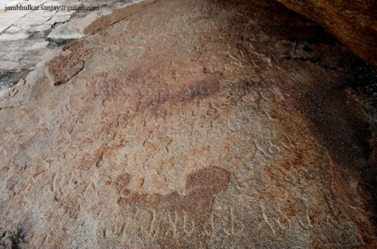 Ashoka Minor Rock Edict inscription, Siddapur